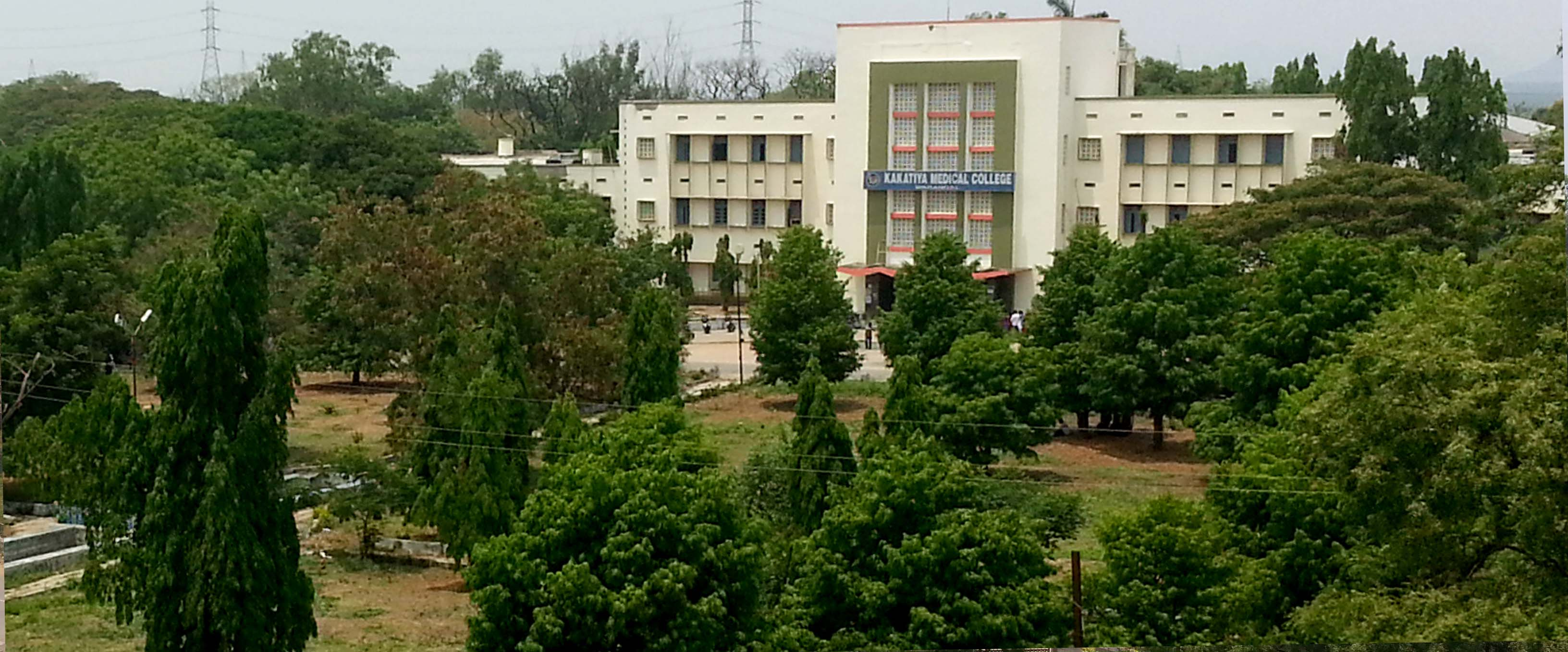 april photo of KMC main building